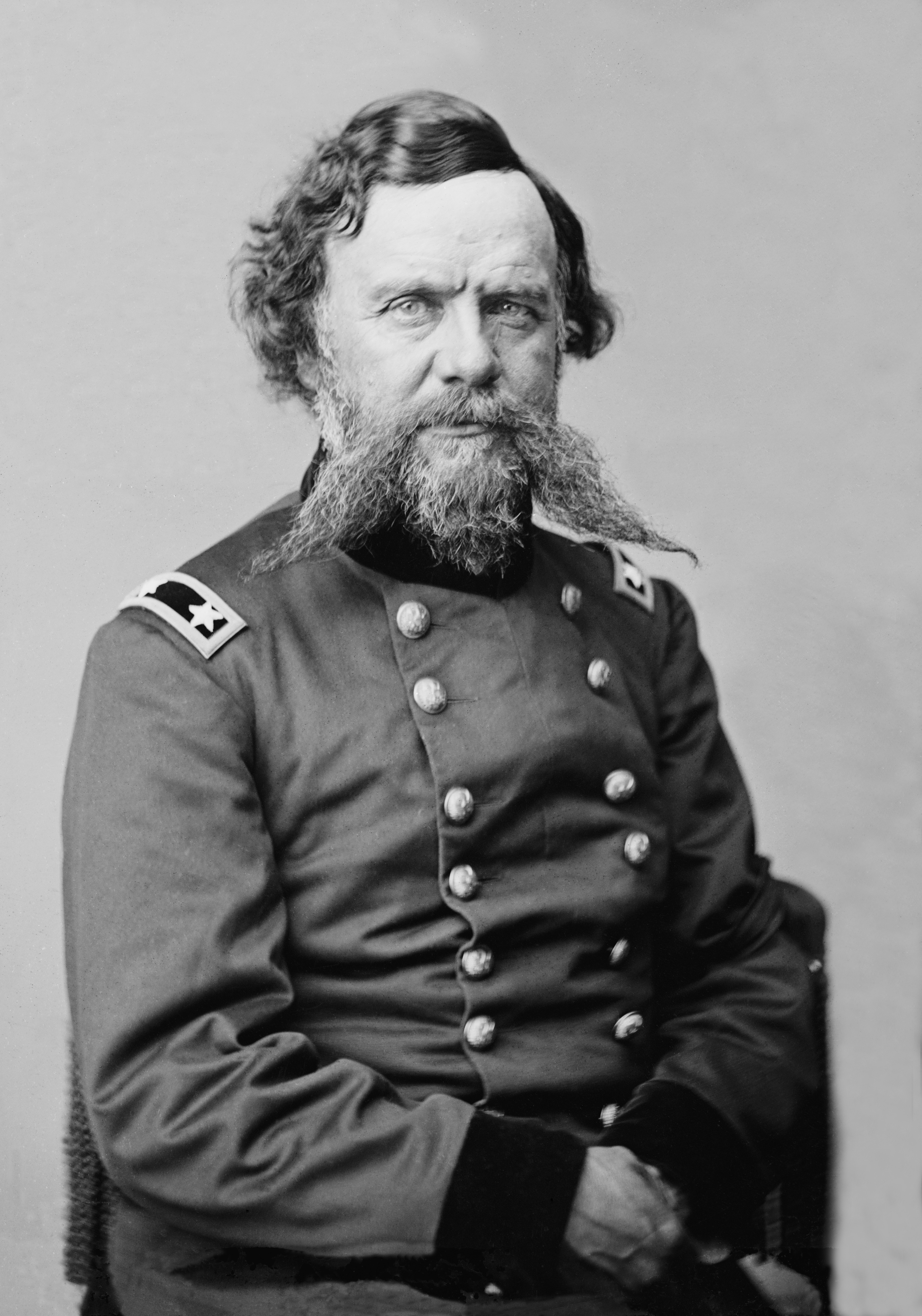 Portrait of Maj. Gen. Alpheus S. Williams, officer of the United States Army